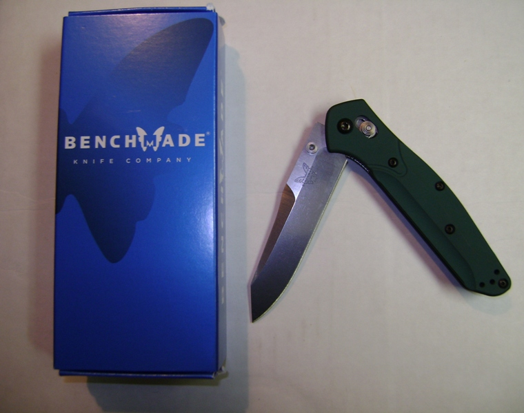 Pocket knive Benchmade 940 by Benchmade Knife Company, Inc. manufacturers; Oregon City, Oregon.